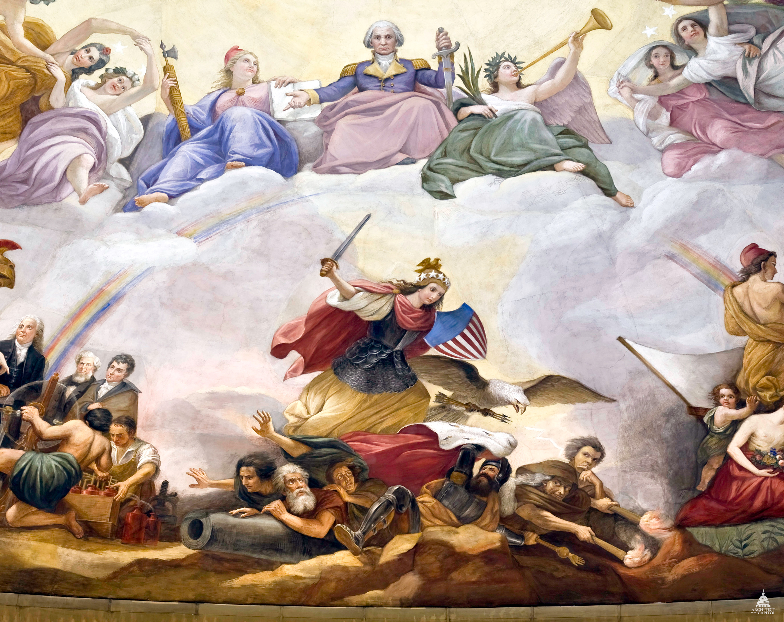 In this scene armored Freedom, sword raised and cape flying, with a helmet and shield reminiscent of those on the Statue of Freedom, tramples Tyranny and Kingly Power; she is assisted by a fierce eagle carrying arrows and a thunderbolt. This official Architect of the Capitol photograph is being made available for educational, scholarly, news or personal purposes (not advertising or any other commercial use). When any of these images is used the photographic credit line should read “Architect of the Capitol.” These images may not be used in any way that would imply endorsement by the Architect of the Capitol or the United States Congress of a product, service or point of view. For more information visit